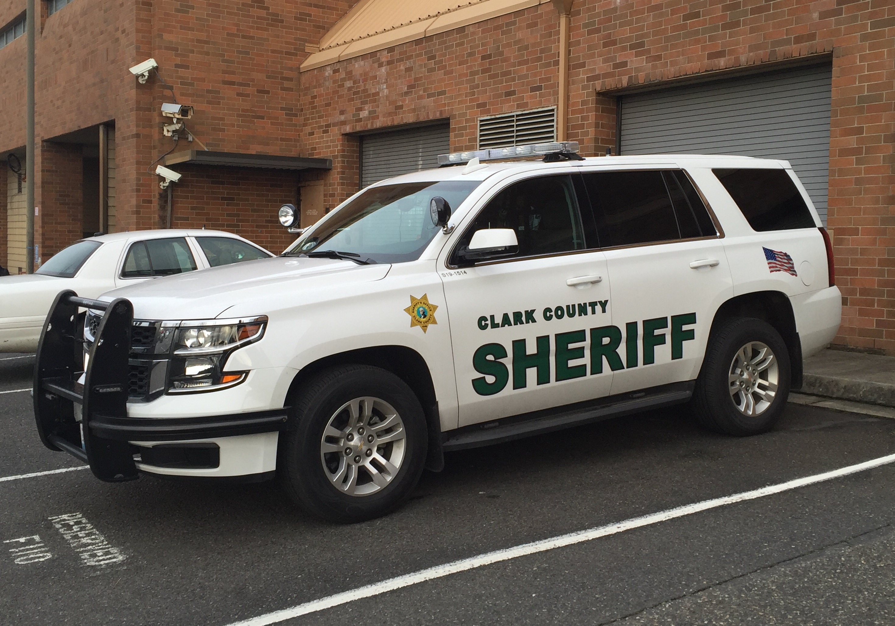 CCSO Patrol Car